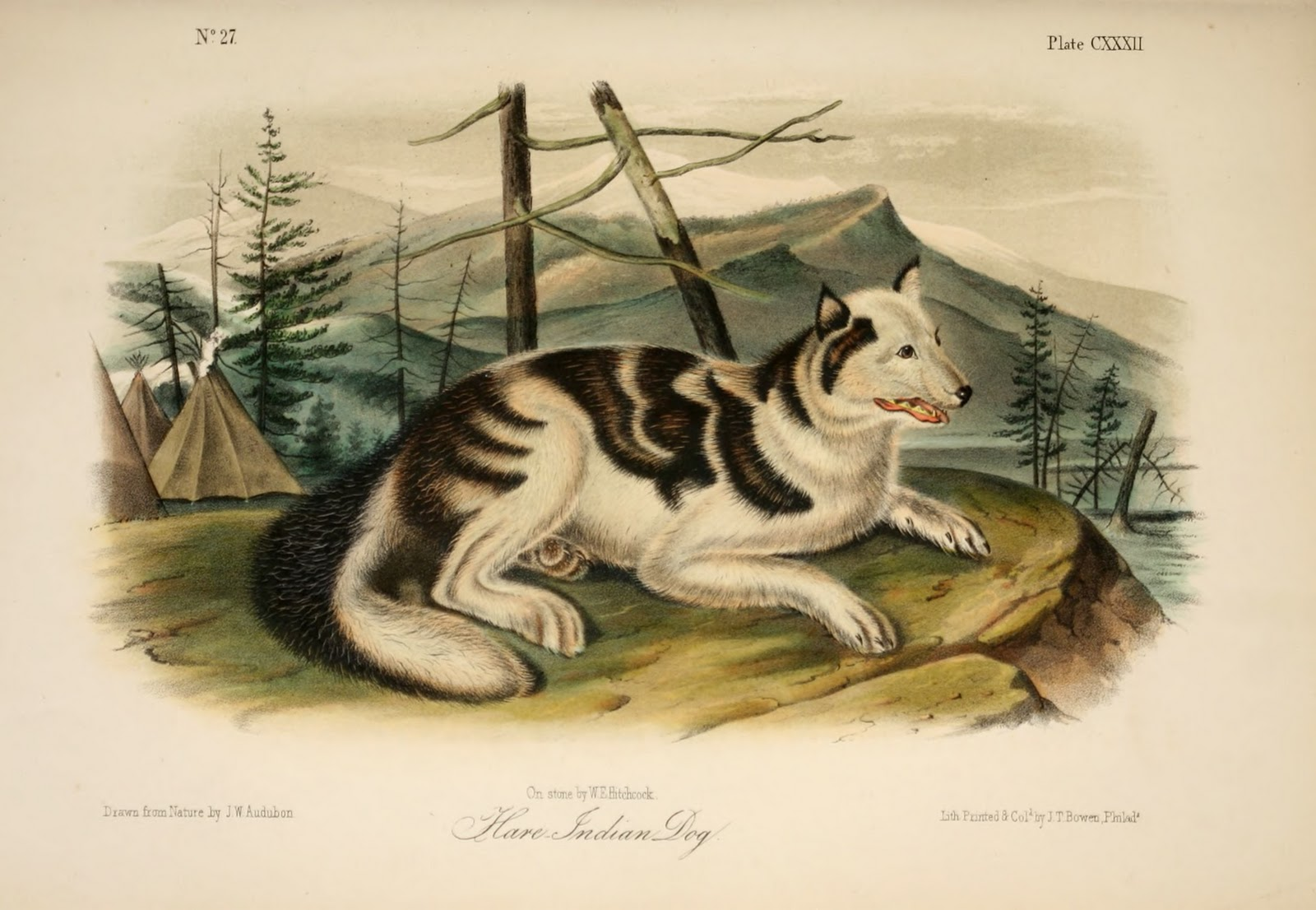 An illustration from The Viviparous Quadrupeds of North America by John James Audubon and John Bachman, originally published in three volumes (1845-1848)